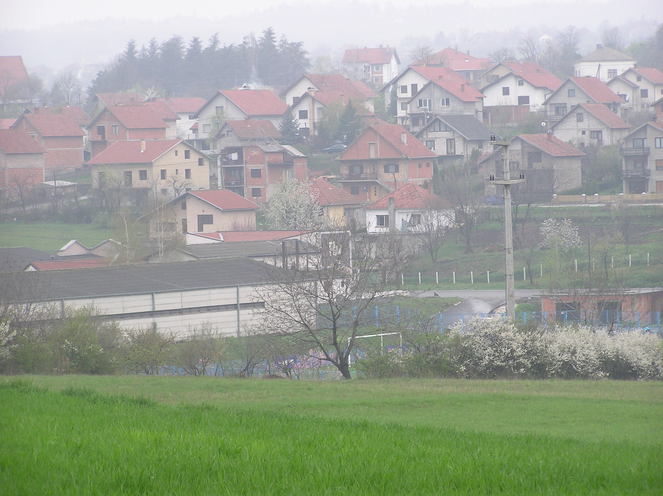 Panoramic view of Sopot, Serbia